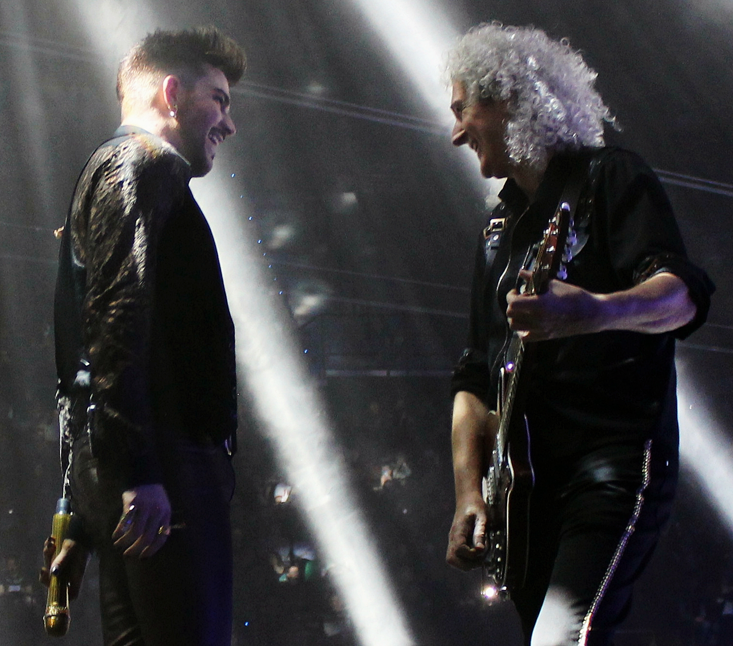 Brian May and Adam Lambert perform Who Wants To Live Forever in Vienna, 1st February 2015.